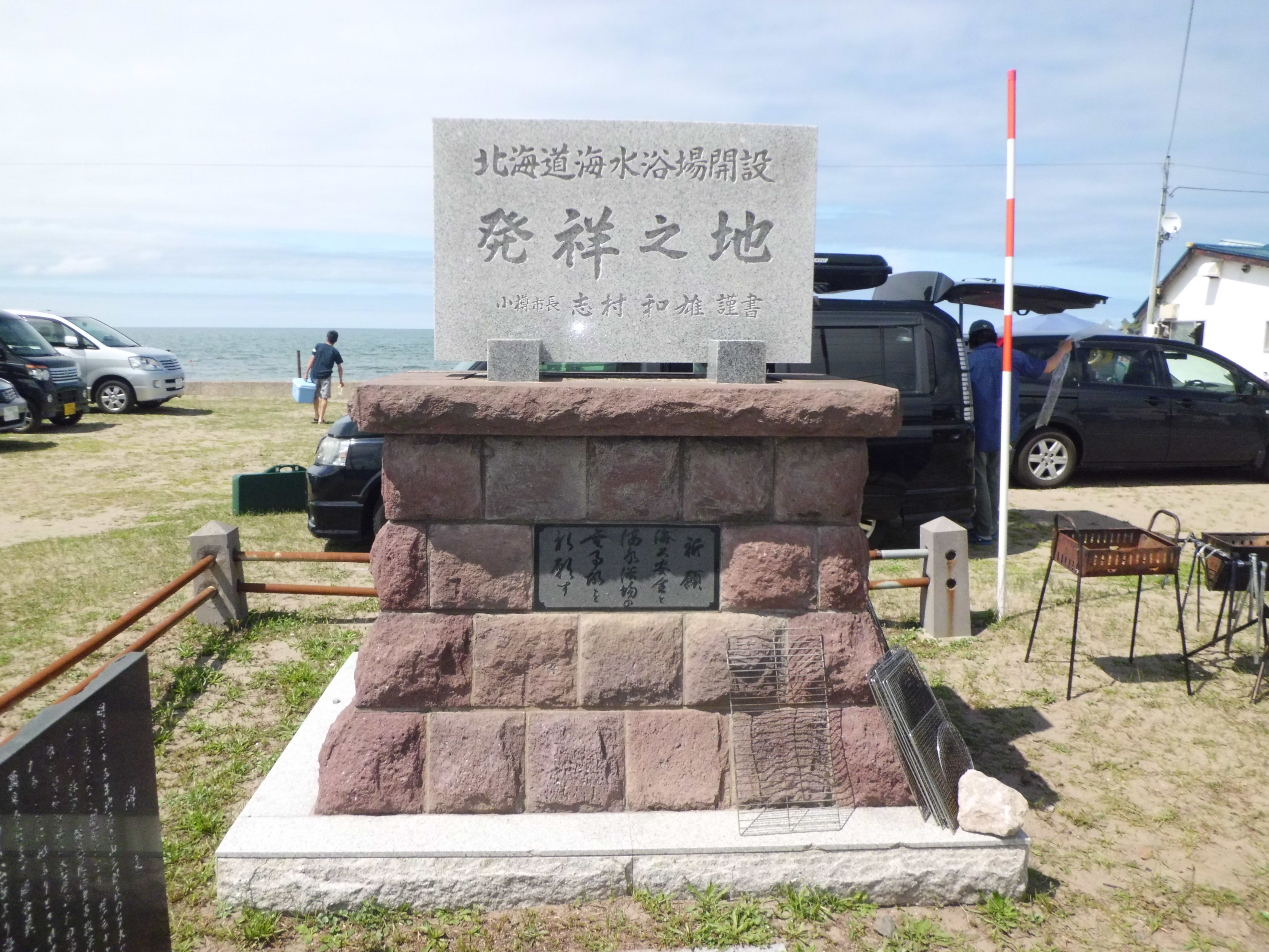 Monument of the first seaside resort of Hokkaido. It is in Ranshima beach, Otaru city, Hokkaido, Japan.